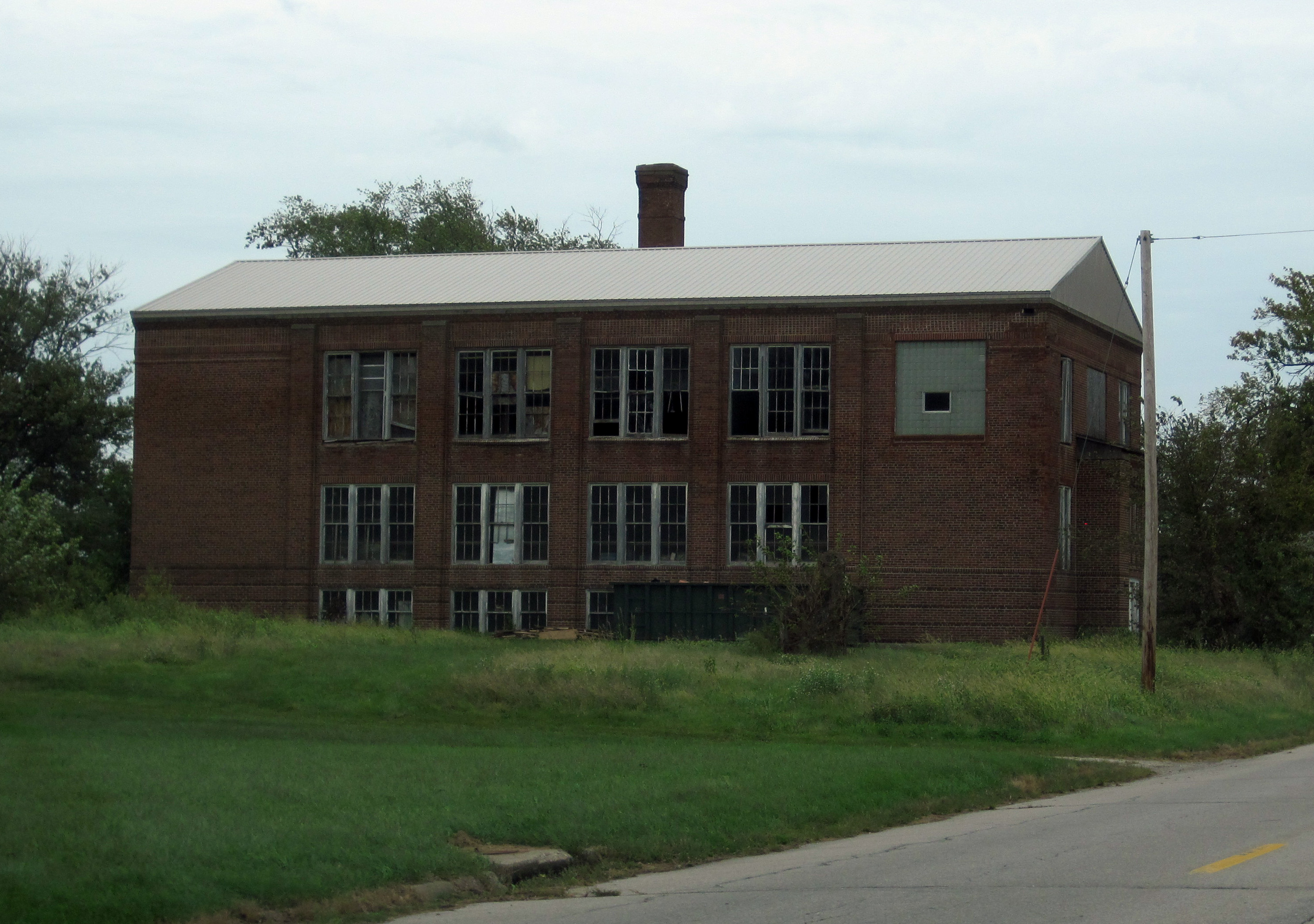 Kinross abandoned school